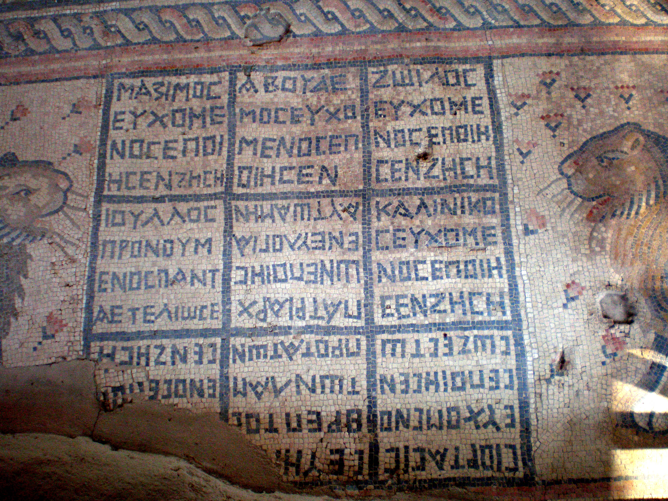 Ancient Greek inscription on the hellenistic mosaic floor belonging to the synagogue in Hamat Tiberias Israeli national park. It was built between 337 and 286 B.C.E.